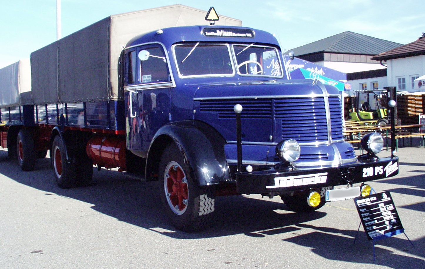 Photo of a Südwerke Titan, later same model was called Krupp Titan.